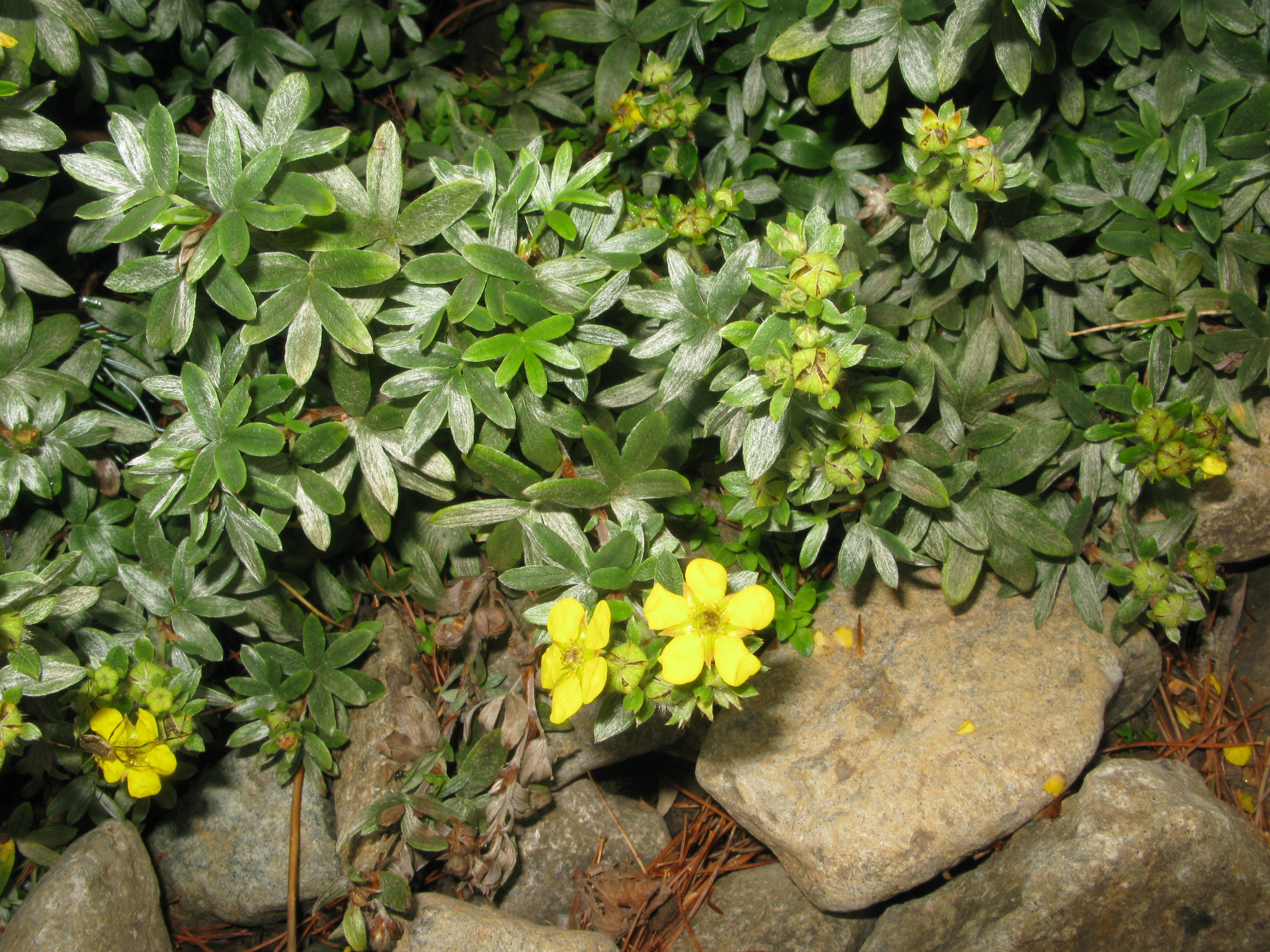 Dasiphora fruticosa, Mount Hayachine, Iwate pref., Japan